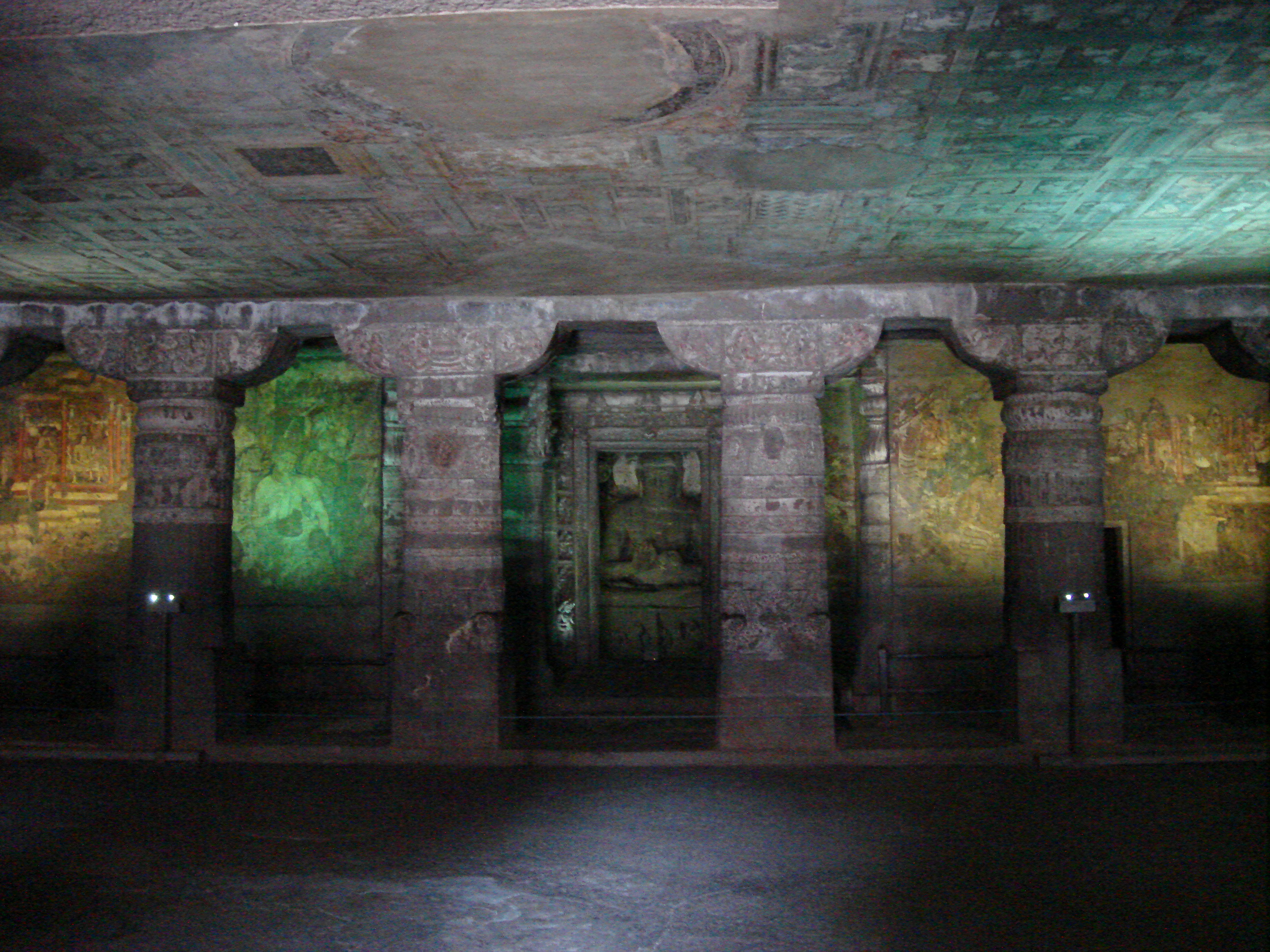 Ajanta is a renowned name in the world of architecture.Amidst a picturesque landscape of Deccan basalt,101 km north of Aurangabad in Maharashtra,there occurs a small hamlet-Ajanta.It has 30 Buddhist rock-cut caves,unique sculptures,carvings and mural paintings. The Ajanta caves possess an invaluable treasure of Indian art which imbibes inspiration in the art-loving people of all generations.The facades of the Chaitya halls show intense ornamentation and carvings.Rocks were hewn out to make figures of classic qualities.The entire course of the evolution of Buddhist architecture can be traced in Ajanta.During this time,images of Buddha on his different life stories and several types of human and animal figures were carved out of in-situ rock.All sections of people of the contemporary society from kings to slaves,woman,man and children are seen in the Ajanta murals interwoven with flowers,plants,fruits,birds and beasts.There are also the figures of Yakshas,Kinnas(half human and half bird),Gandharvas(divine musicians),Apsaras(heavenly dancers)which were of concern to the people of that time.One thousand years of neglect,and exposure to the hostile elements of nature have damaged many of the beautiful works of the past but those which have survived in caves 1,2,16 and 17 can be ranked high among the greatest artistic works of the contemporary world. The Ajanta caves are excavated in a semicircular scarp of 75 m height overlooking a meandering stream,Waghora that descends as a steep ravine with seven leaps.The caves have a horse-shoe pattern of arrangement covering a stretch of 550 m.Their floor levels are not uniform and they have got no symmetry in their subsurface distribution probably due to their excavation in different times.The individual caves were earlier isolated but are now connected by steps [